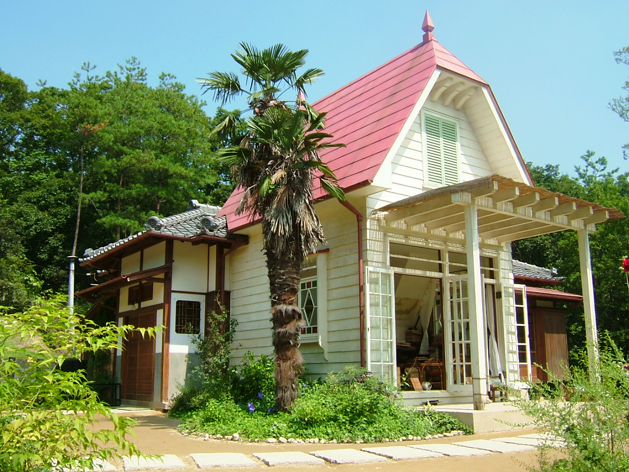 Satsuki and Mei’s House.The pavilion reproducing the character "Satsuki and May" house of Hayao Miyazaki's movie "My Neighbor Totoro".